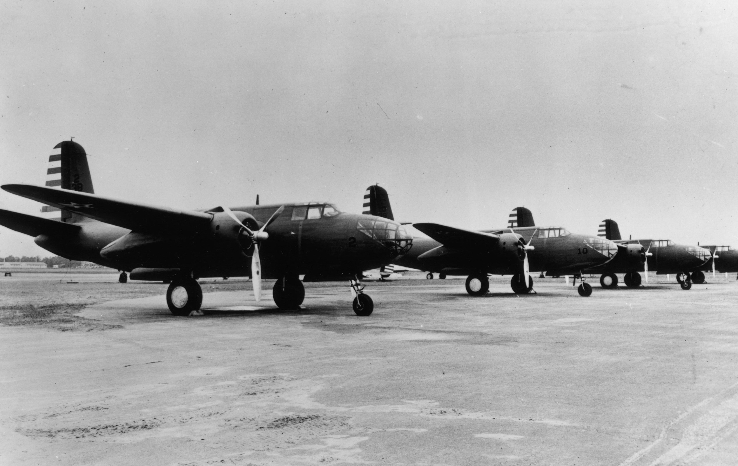 The 89th Bombardment Squadron, assigned to the 3rd Bombardment Group, flew the Douglas A-20 Havoc, an attack bomber, during World War II in the Pacific Theater of Operations. (Photo courtesy of 3rd Wing History Office)